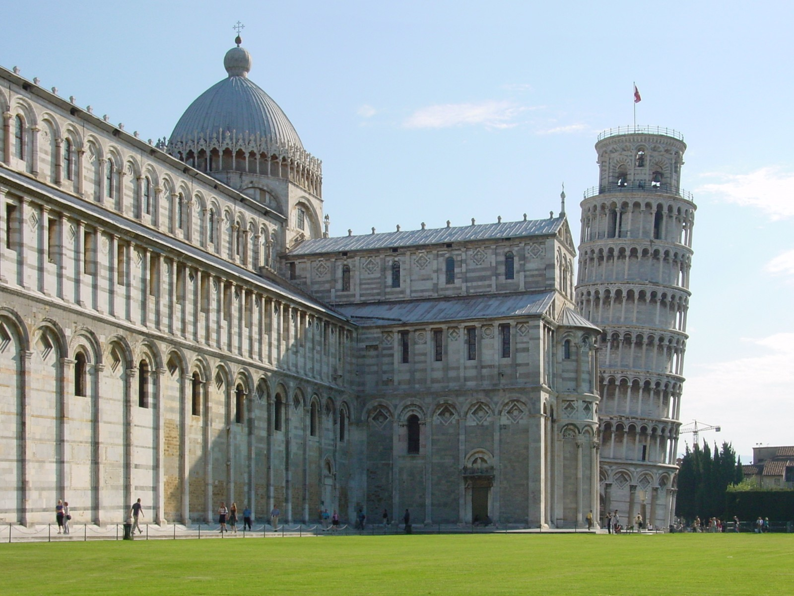 Cathedral Santa Maria Assunta in Pisa, Italy.